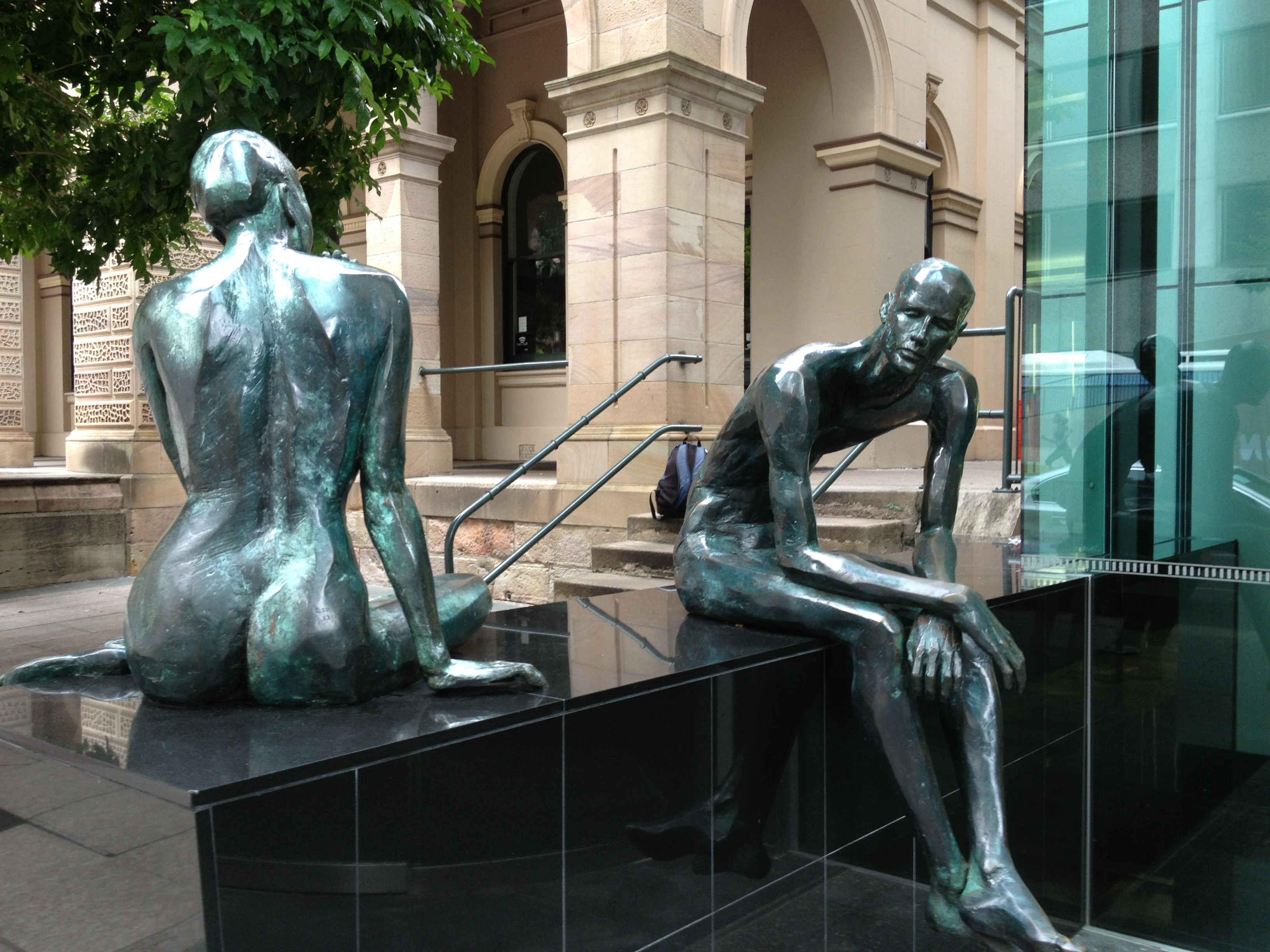 Dialogue sculpture by Cezary Stulgis (2004), Queen Street, Brisbane